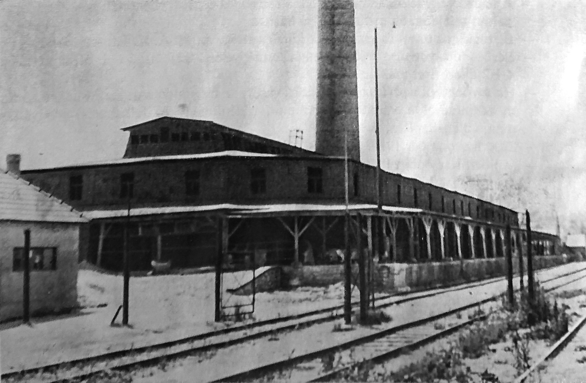 Lime kiln, Hejőcsaba Cement and Lime Factory, Miskolc, Hungary